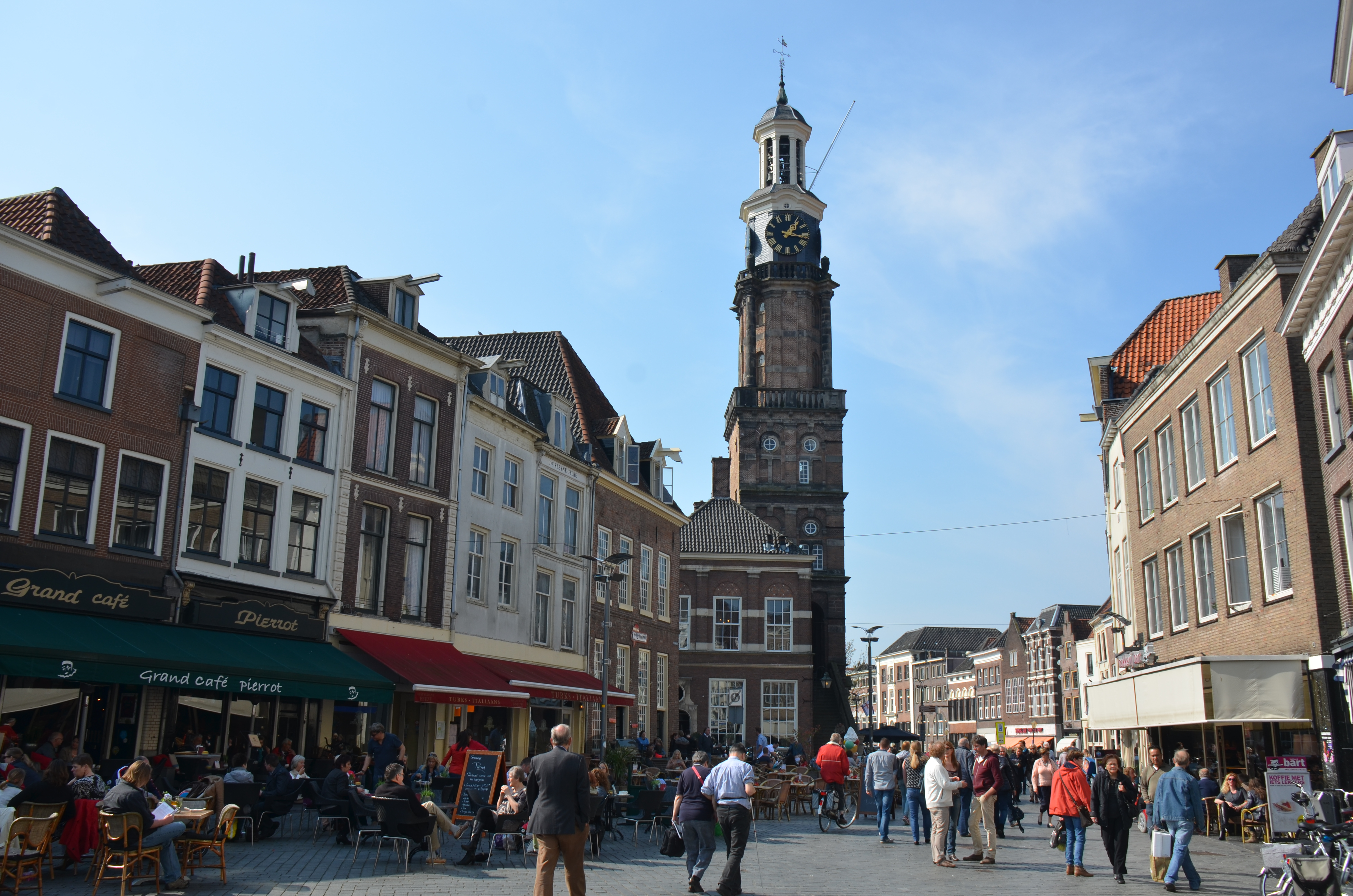 29 March 2014: almost 20 degrees! Real springtime at Zutphen innercity